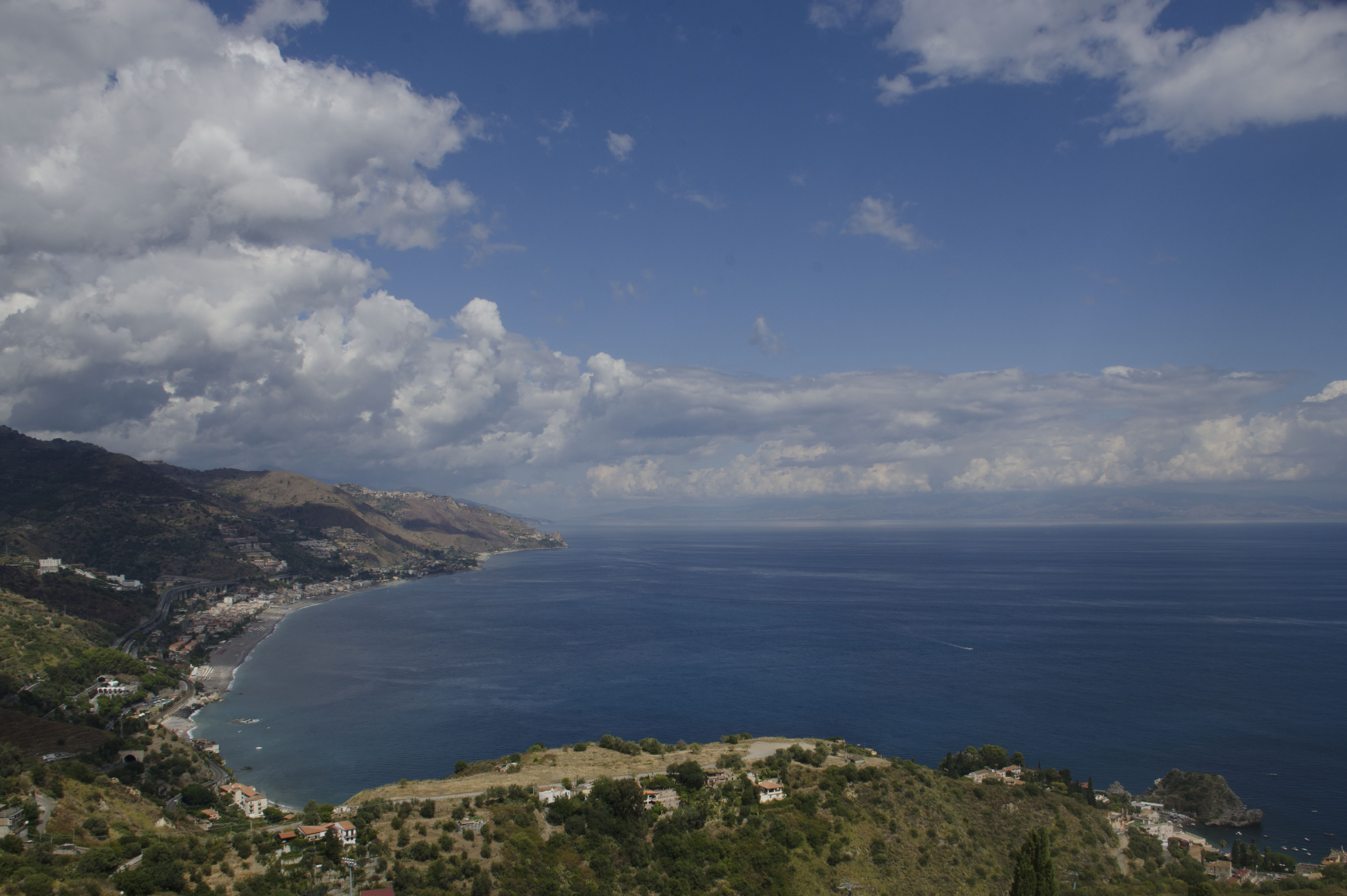 Coast looking northward from Taormina, Sicily. Compare to 1899 view